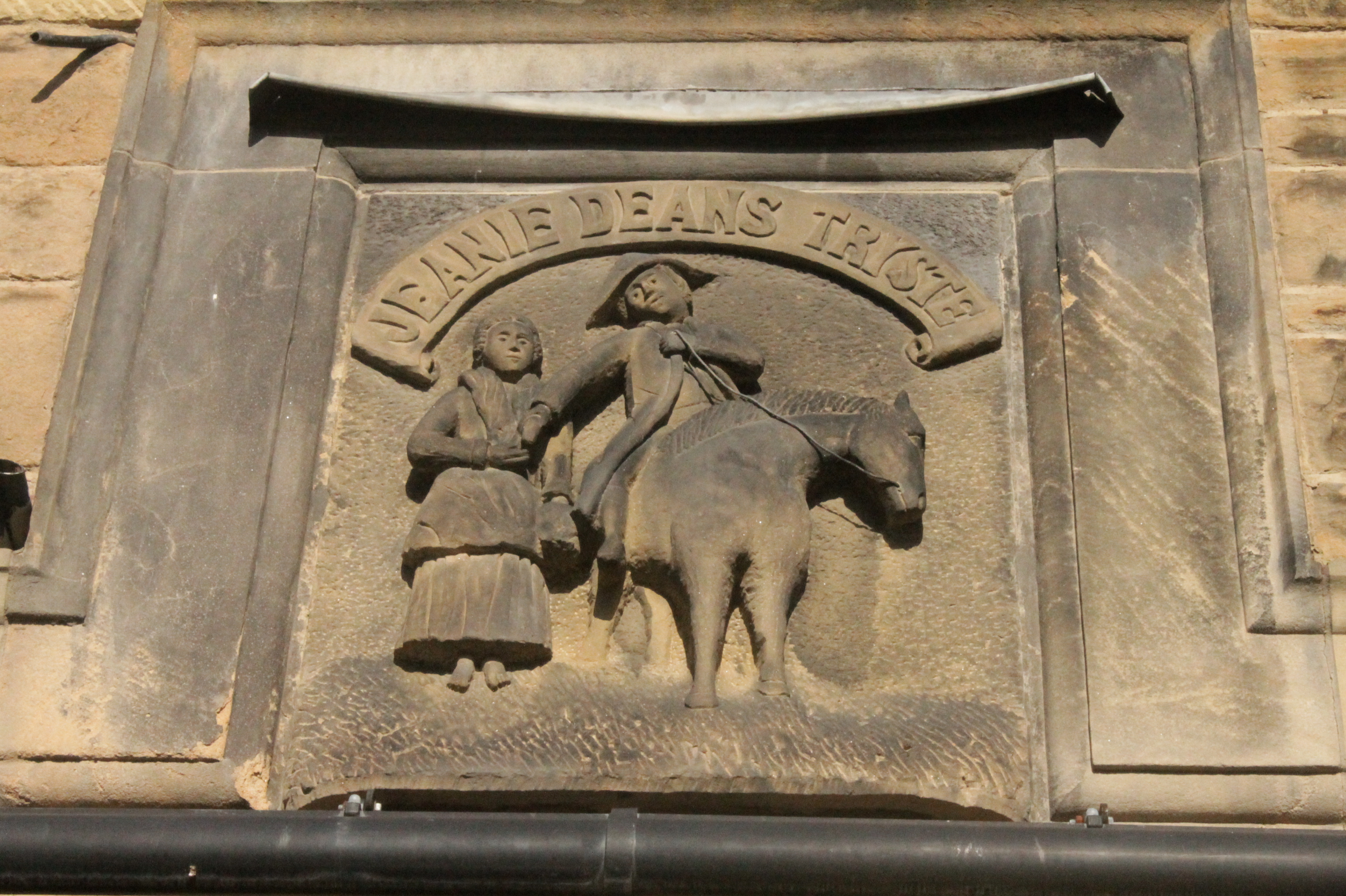 Plaque on Jeanie Deans Tryst building, St Leonard